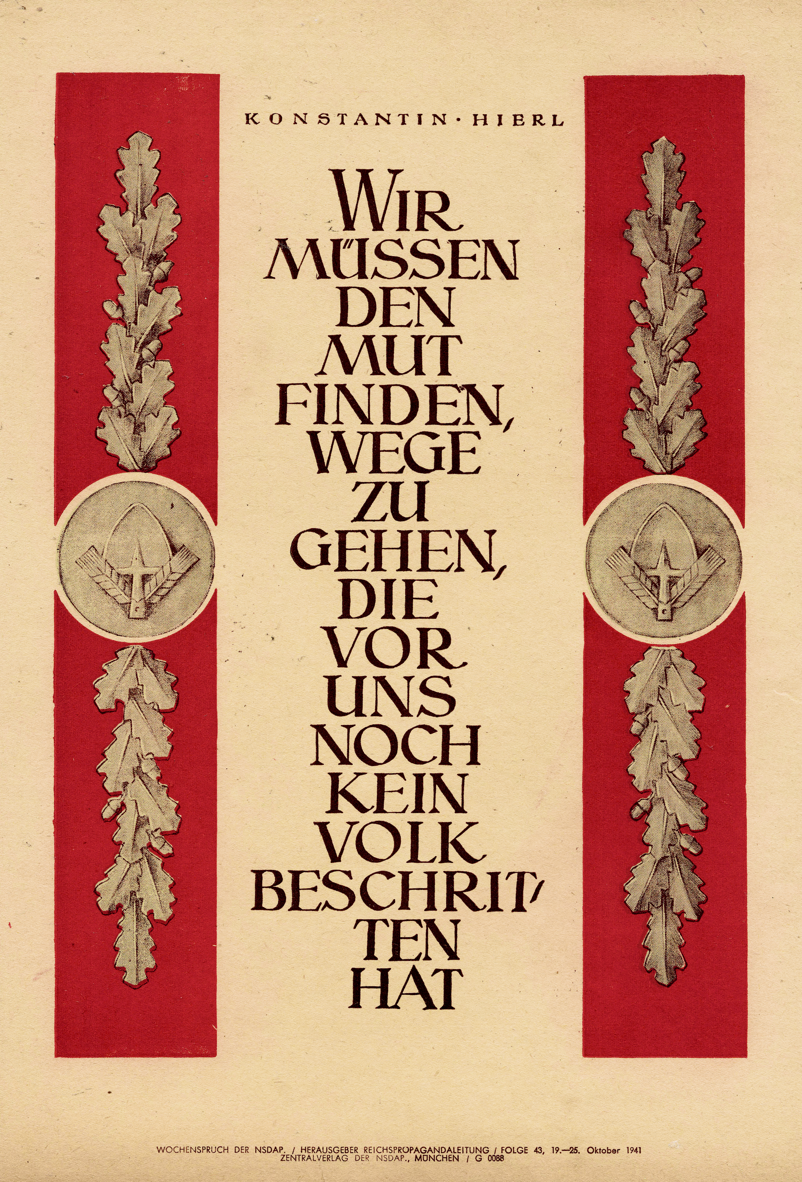 We Have To Find The Courage To Tread Paths That No People So Far Have Taken — Konstantin Hierl